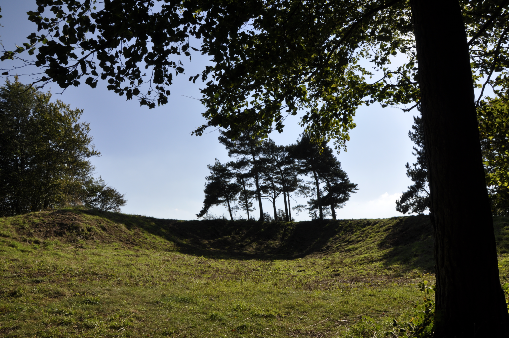 Scutchamer Knob, on the Ridgeway near East Hendred (UK). Site of an ancient barrow.